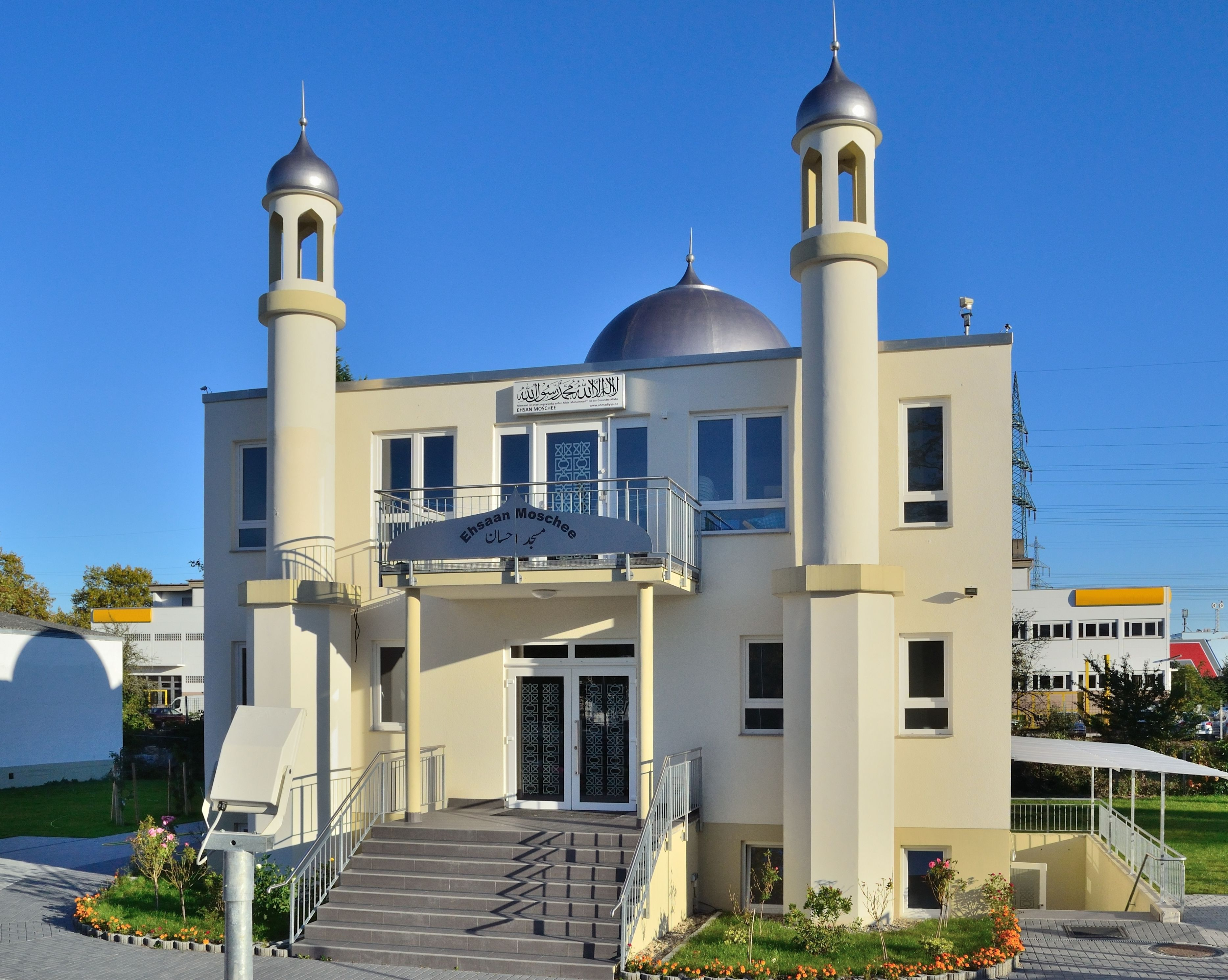 Ehsaan-Mosque in Mannheim, Germany. The mosque was built by the Ahmadiyya Muslim Community.